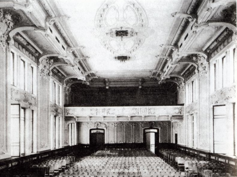 Photo of the Nemchinov theater in Moscow made sometime between 1899-1905.